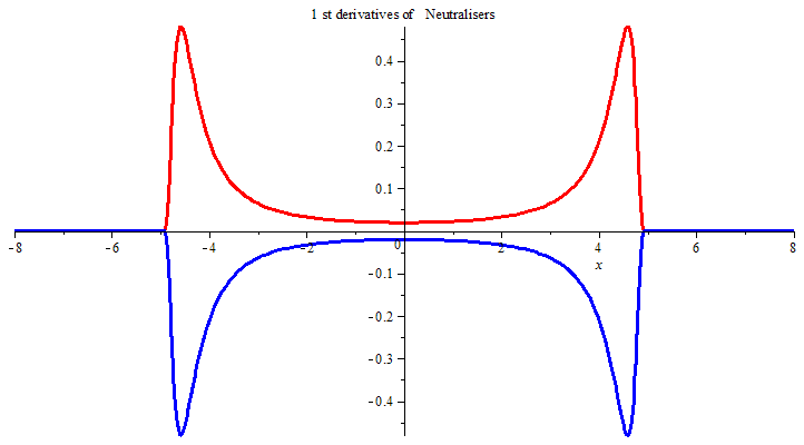 First derivatives of Neutralisers